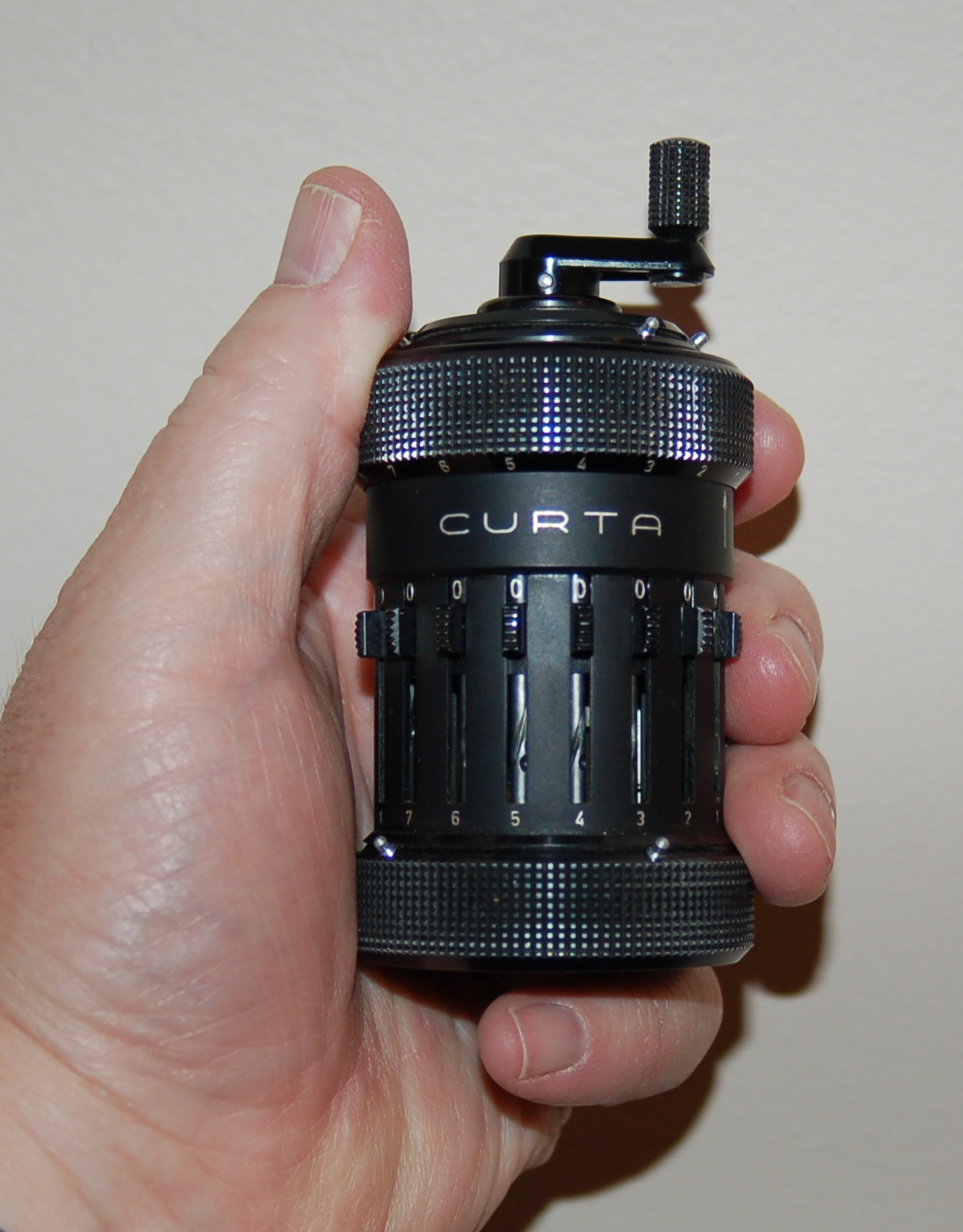 Left hand holding my Curta Type I Calculator (Sn. 49465), which I purchased for $10.00 in Santa Cruz, CA.